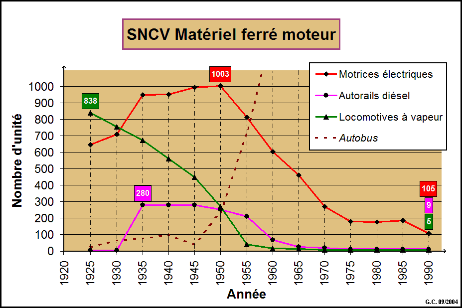 SNCV secondary railways trams rolling stock locomotive railcar tramcar history Belgium